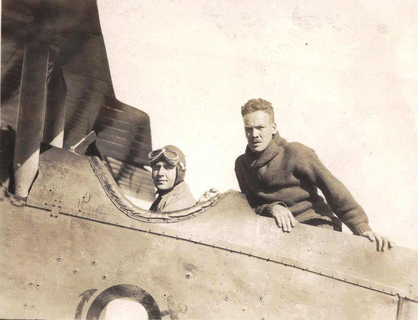 Lieutenant Harmon J. Norton and Gunnery Sergeant Esterbrook of the 1st Marine Aeronautic Squadron pose for a photograph in their airplane in the Dominican Republic, 1919. From the Alfred A. Cunningham Collection (COLL/3034) at the Marine Corps Archives and Special Collections OFFICIAL USMC PHOTOGRAPH